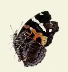 Unknown species of genus Vanessa from Newfoundland, Drawing by Henry Seymer (1714-1785) and Henry Seymer jun. (1745-1800)